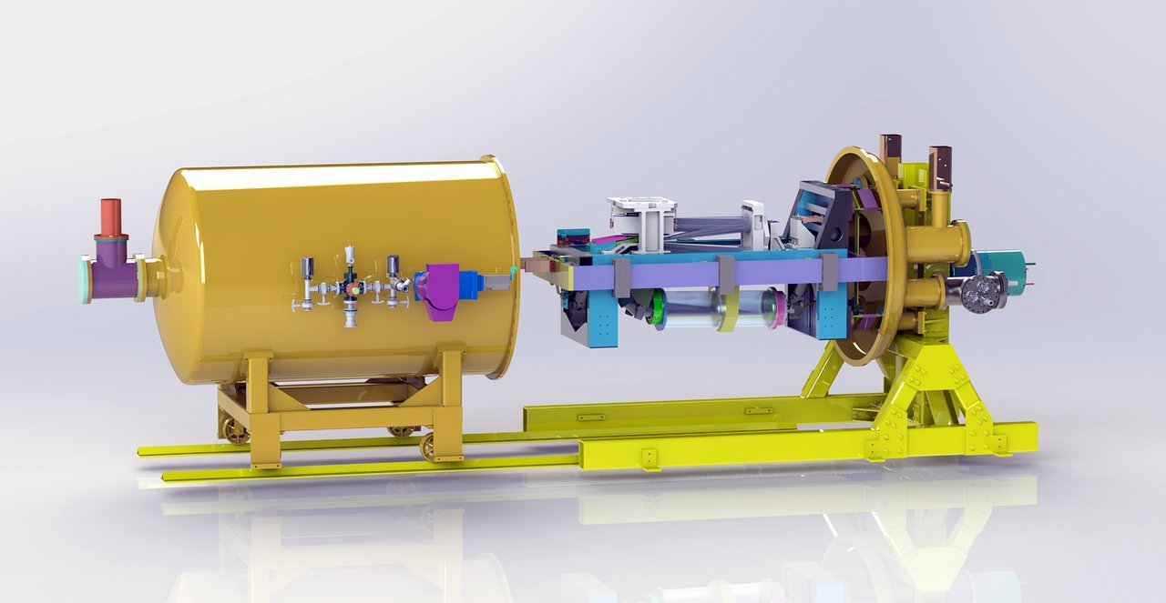 This conceptual drawing shows the NIRPS (Near Infra Red Planet Searcher) instrument on the ESO 3.6-metre telescope at the La Silla Observatory in Chile. Built by an international collaboration led by the Institute for Research on Exoplanets (iREx) team at the Université de Montréal, NIRPS is an infrared spectrograph designed to detect Earth-like rocky planets around the coolest stars. Credit: ESO/NIRPS